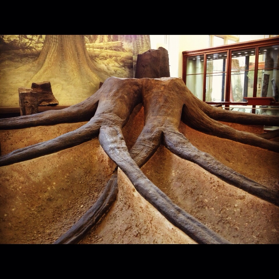 Root System of Lycopsid Tree (Stigmaria ficoides) LL.11627 This massive tree stump from Bradford, Yorkshire, is a part of the Manchester Museum's fossil plants collection. It is from the Upper Carboniferous (Westphalian A) coal swamps that covered the north of England around 300 million years ago, when the climate was quite tropical. Throughout the history of the Earth, the climate has been constantly changing and has driven evolution. Fossils, including this one, from the key environments in Britain's past can be seen on the gallery. The Upper Carboniferous began 325 million years ago and ended 290 million years ago. Much of Britain was covered by water-logged swamps and massive sweeping rivers that cut through the landscape. Most of the swamps were dominated by large tree-like clubmosses called Lepidodendron. This particular example was the largest Lepidodendron in Europe when it was acquired by Professor William Crawford Williamson for the museum in 1898.